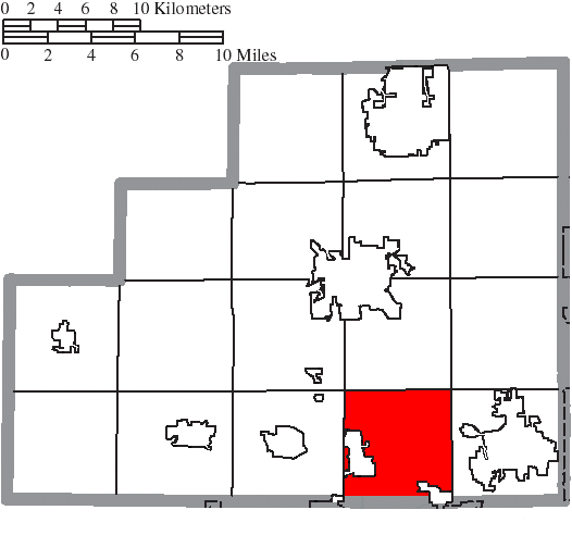 Map of the municipal and township boundaries of Medina County, Ohio, United States, as of the 2000 census, with the location of Guilford Township highlighted. Township borders are shown only in unincorporated areas in order to differentiate incorporated and unincorporated areas more clearly.